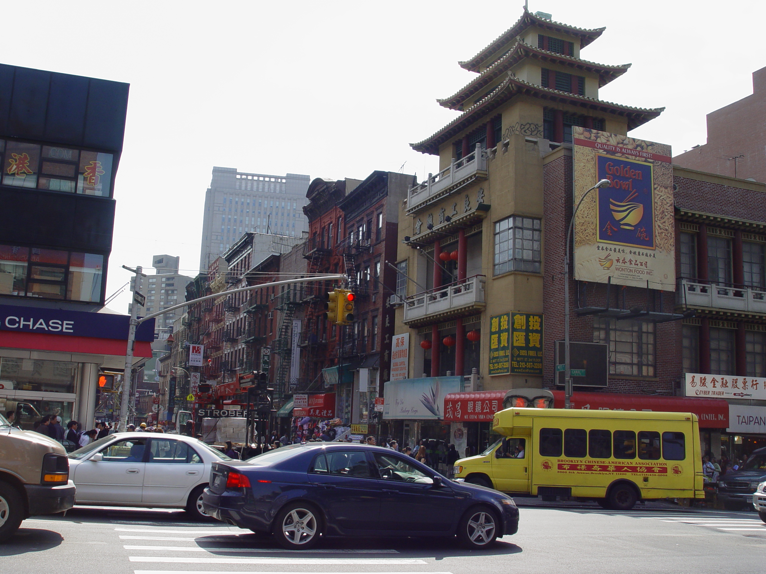 Fotografiert von Martin Dürrschnabel China Town in New York City.